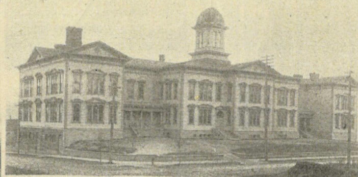 "Denny School", one of several images brought together as "A few school houses of Seattle", from brochure Seattle and the Orient (1900). This school on Battery Street between 5th & 6th Avenues in Belltown opened 1884, but was demolished in 1928 as part of the Denny Regrade project. See Denny on the site of Seattle public schools.